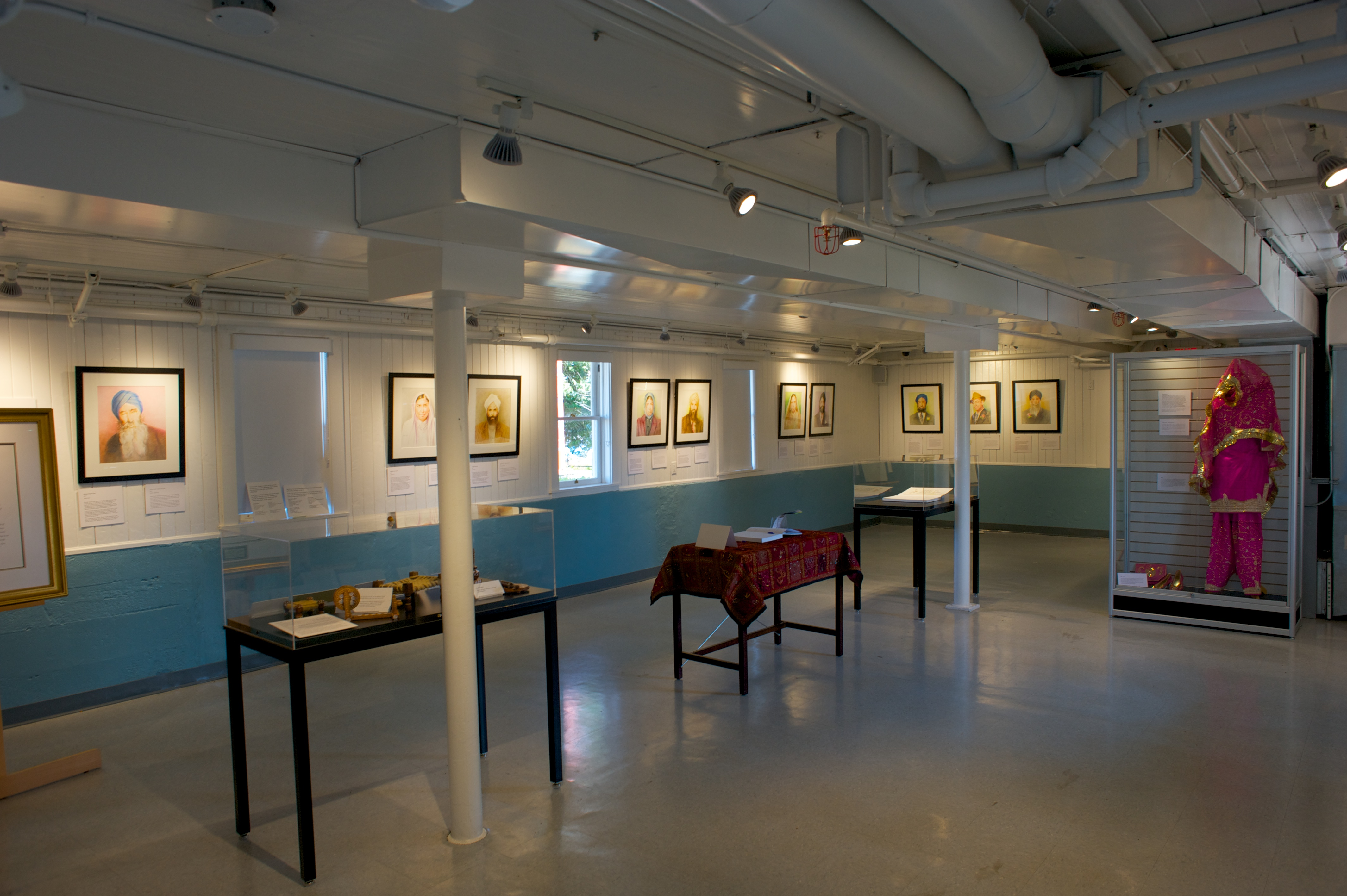 South West exterior elevation of Gur Sikh Temple